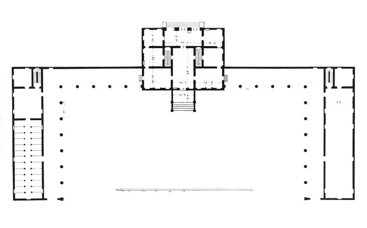 Villa Zeno in Donegal di Cessalto, province of Treviso. Drawing by Ottavio Bertotti Scamozzi, 1781.